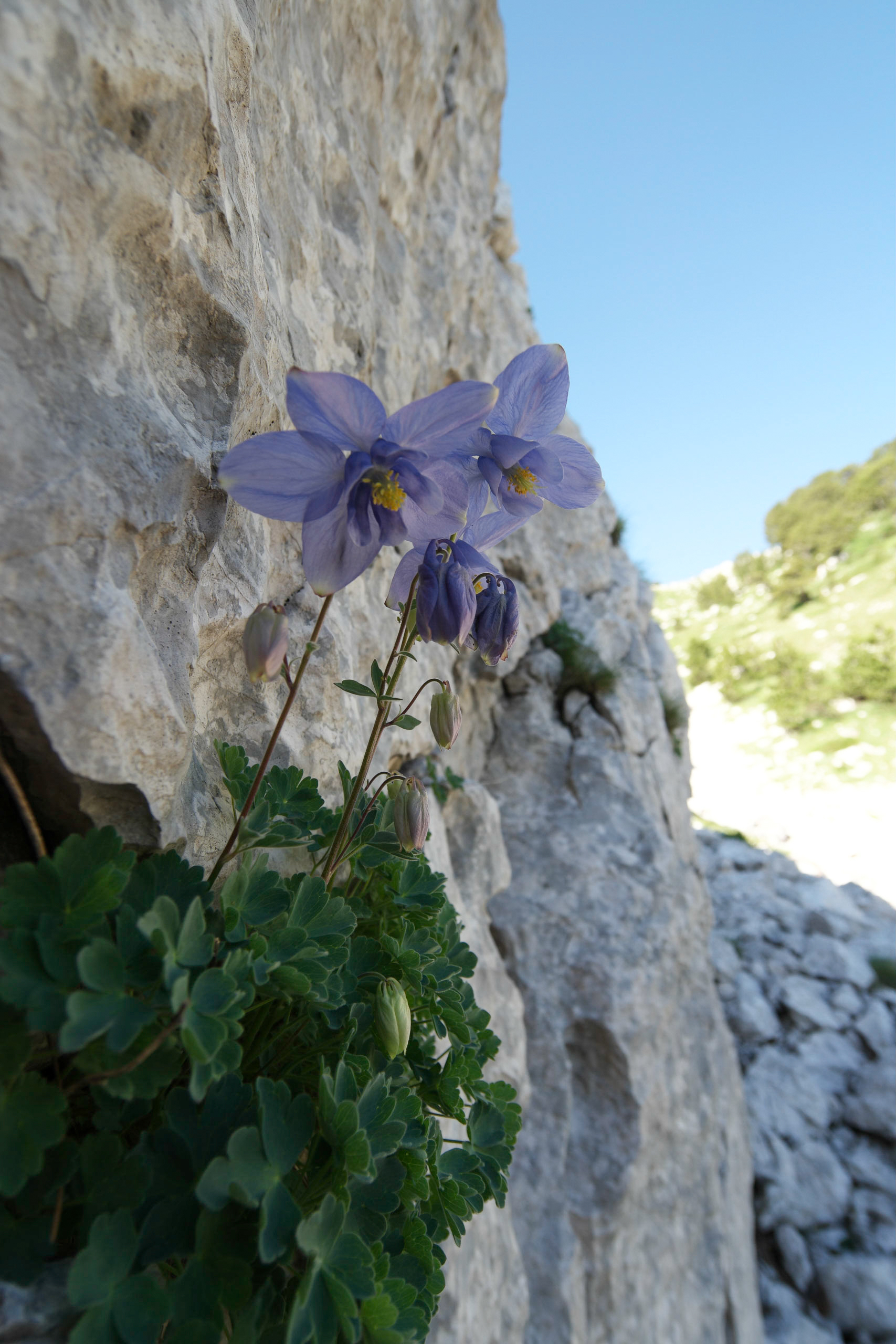 Dinaric columbine from the wild. Mt Orjen Montenegro at 1710 m a.s.l.